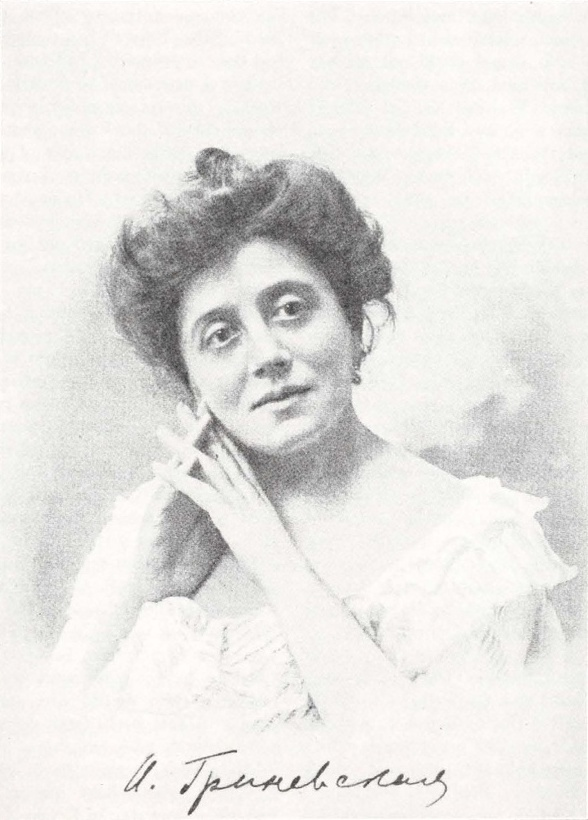 Portrait of Isabella Grinevskaya, a Russian author (1864-1944)